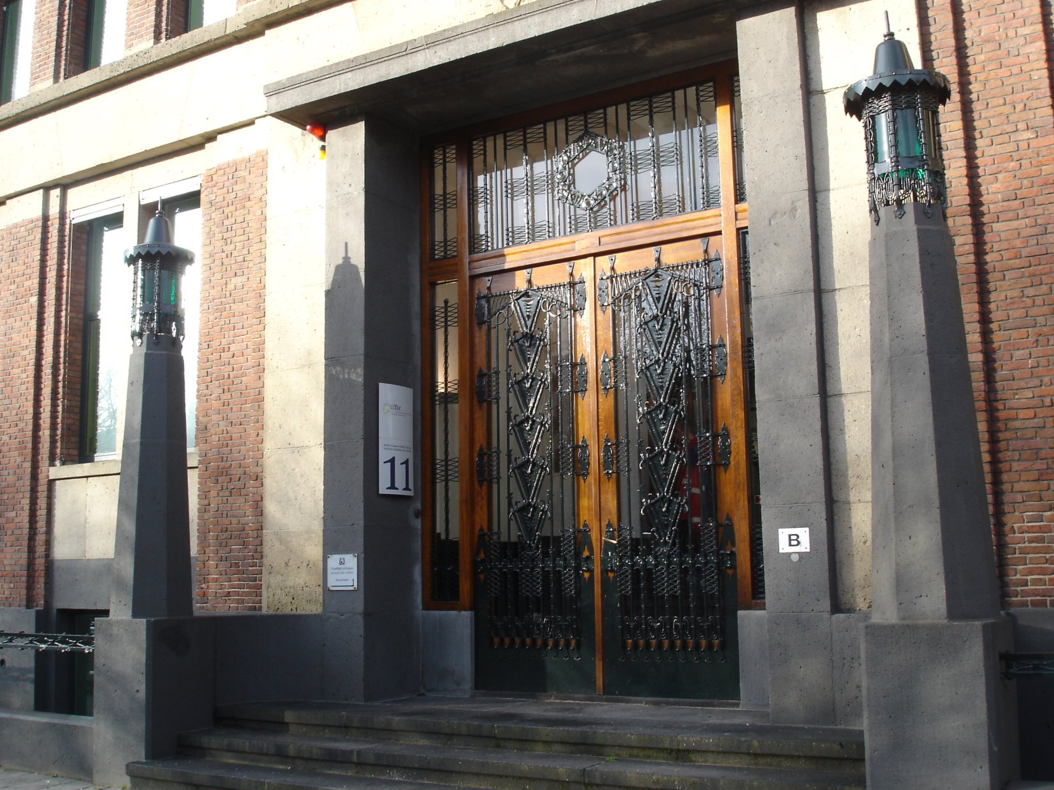 Main entrance of Nuffic (Netherlands Organization for International Cooperation in Higher Education) building, The Hague, Netherlands